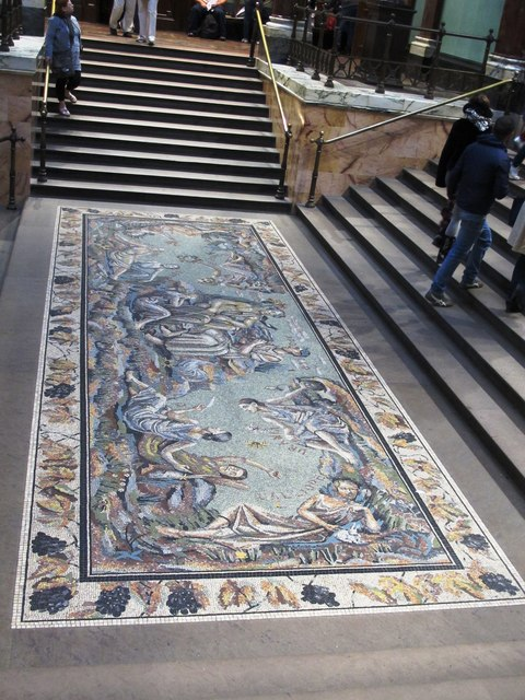 Installed in the vestibule of the National Gallery, London, 1933